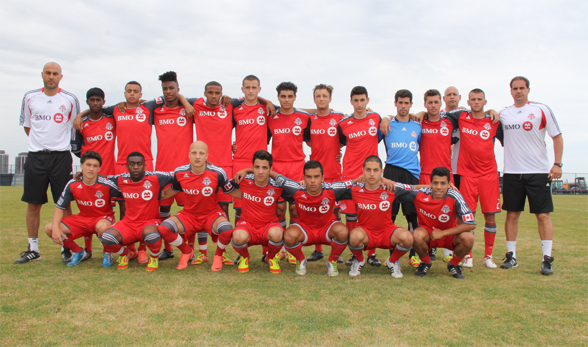 One or two players missing. Far left is Danny Dichio and far right are Domenic Ientile and Anthony Capotosto.